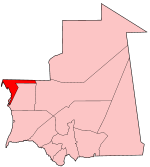 Map of Mauritania showing Dakhlet Nouadhibou region.